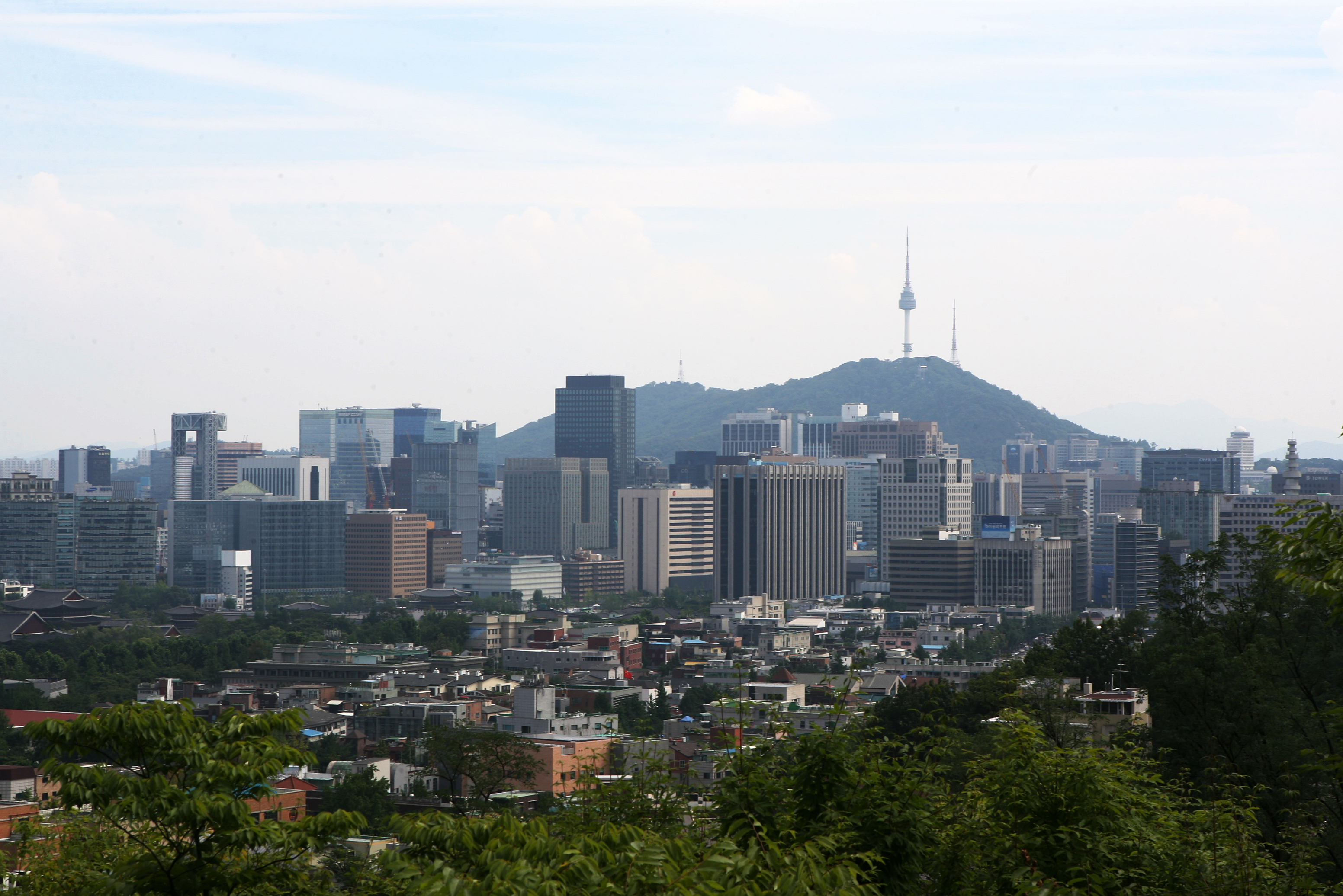 A view of Seoul from Poet Yoon Dong-ju's Hill 2012.08.25. (Photo by KOCIS - Han Jeon) Ministry of Culture, Sports, and Tourism Korea Culture and Information Service 윤동주 시인의 언덕에서 바라본 서울시 전경 문화체육관광부 해외문화홍보원 전한